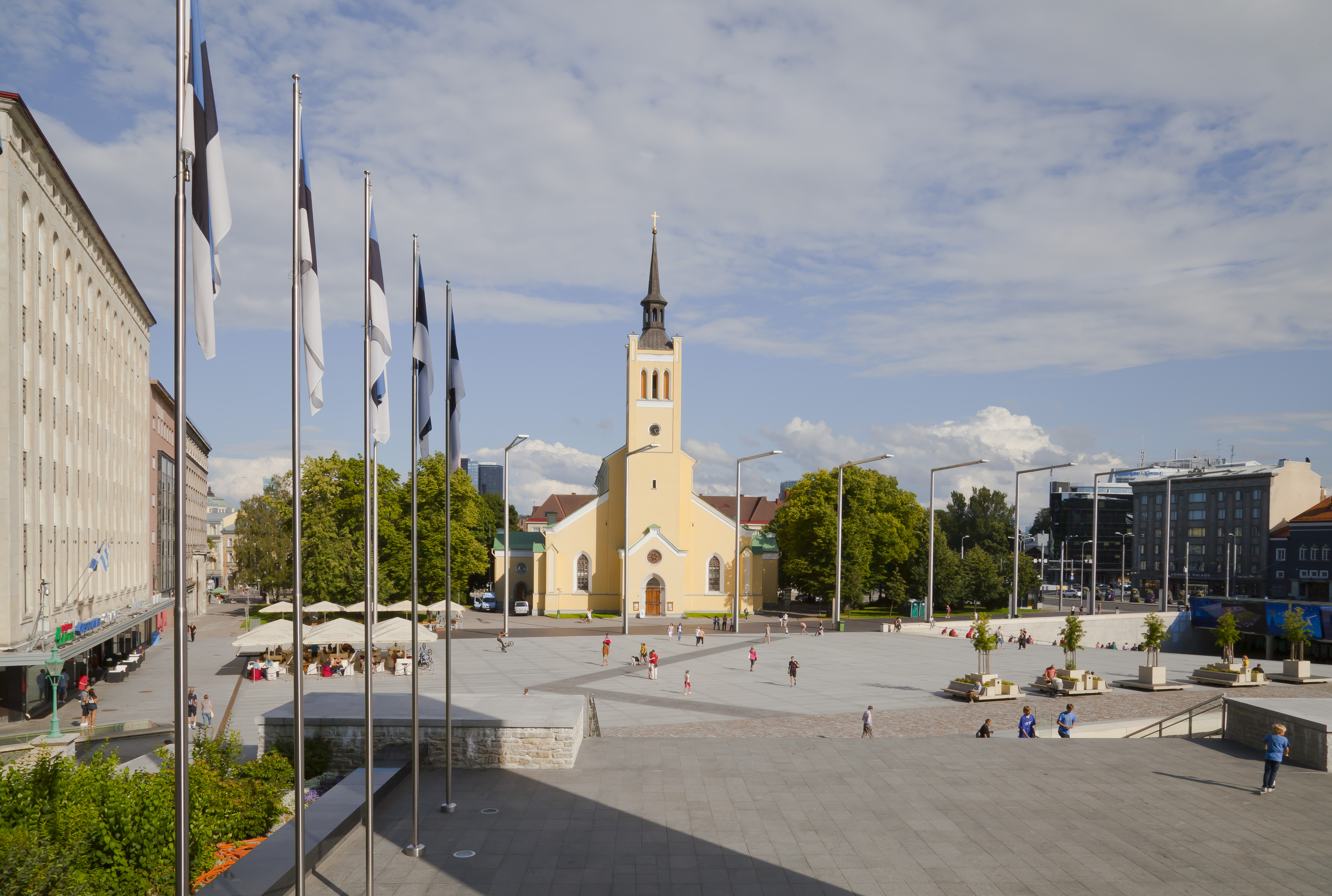 Freedom square, Tallinn, Estonia